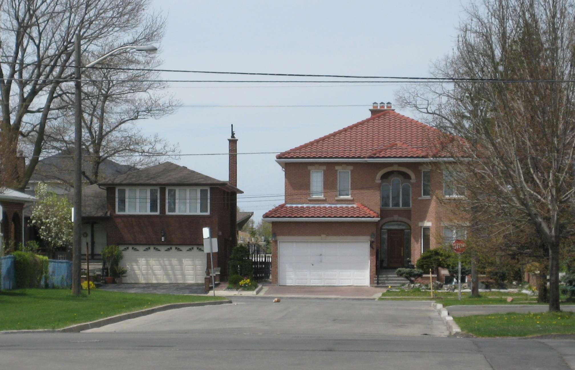 Humber Summit houses